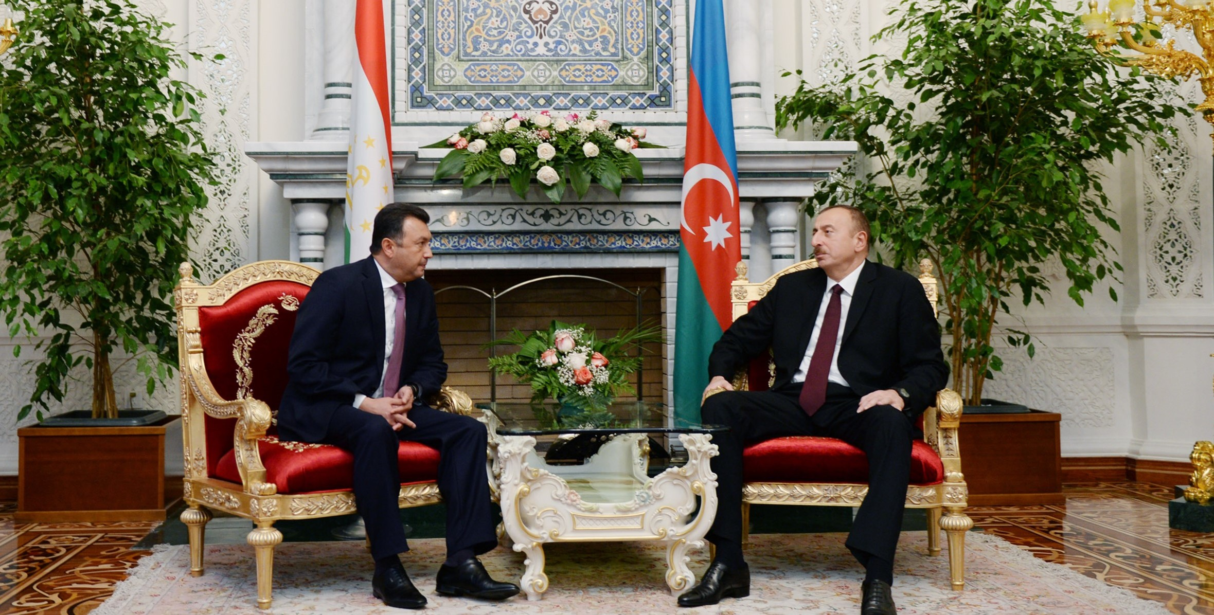 Official visit of Ilham Aliyev to Tajikistan